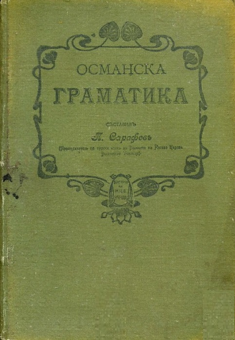 Ottoman Grammar by Petar Sarafov